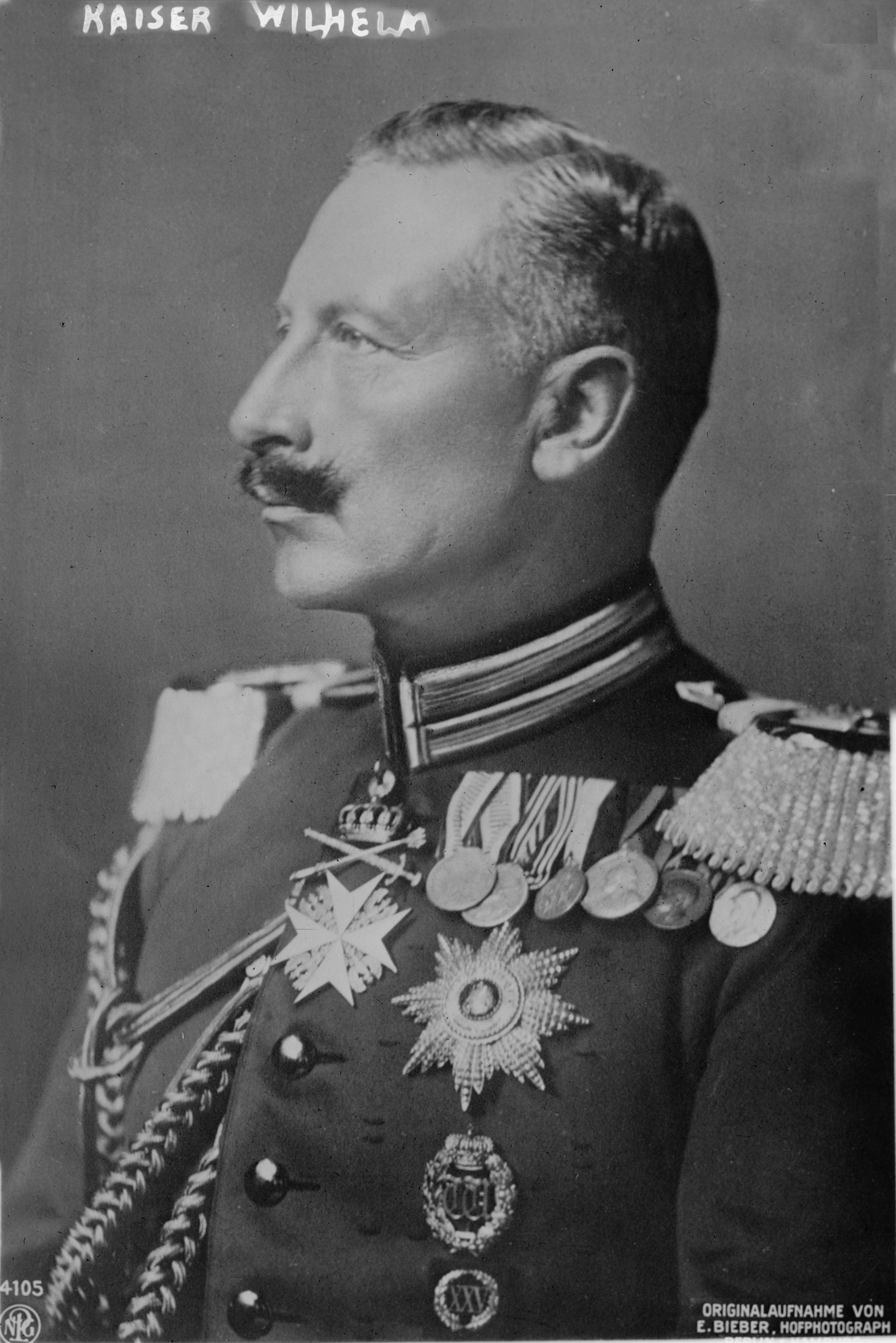 Bain News Service,, publisher. Kaiser Wilhelm [between 1910 and 1915] 1 negative : glass ; 5 x 7 in. or smaller. Notes: Title from unverified data provided by the Bain News Service on the negatives or caption cards. Forms part of: George Grantham Bain Collection (Library of Congress). Format: Glass negatives. Repository: Library of Congress, Prints and Photographs Division, Washington, D.C. 20540 USA, General information about the Bain Collection is available at Persistent URL: Call Number: LC-B2- 2598-3